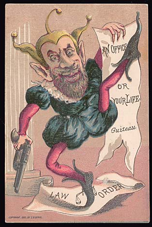 Cartoon of Charles J. Guiteau by Miriam Leslie: A cartoon of the murderer of President James A. Garfield